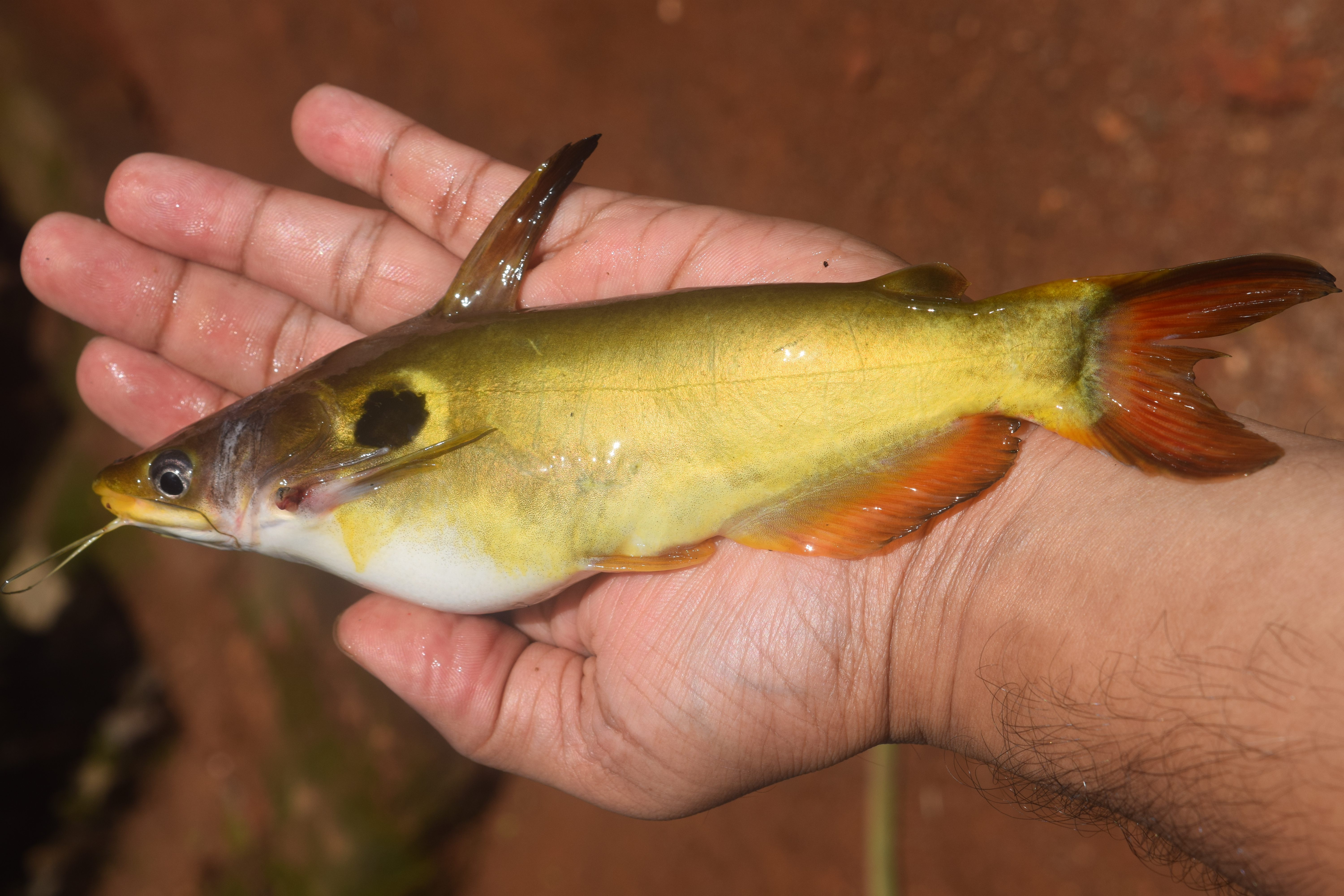 Horabagrus brachysoma (Günther, 1864)